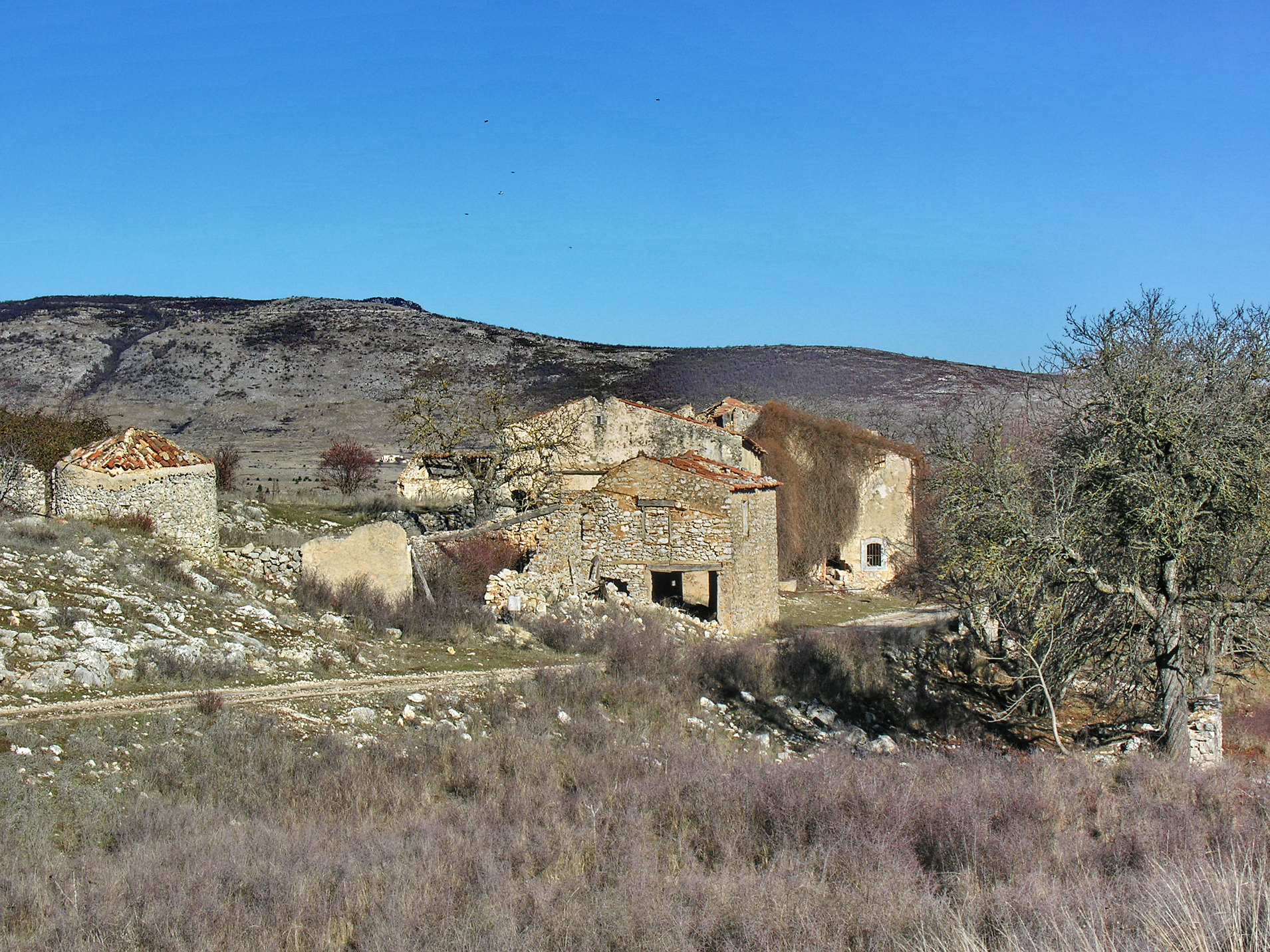 Military camp of Canjuers Grande Nouguiere's bastide